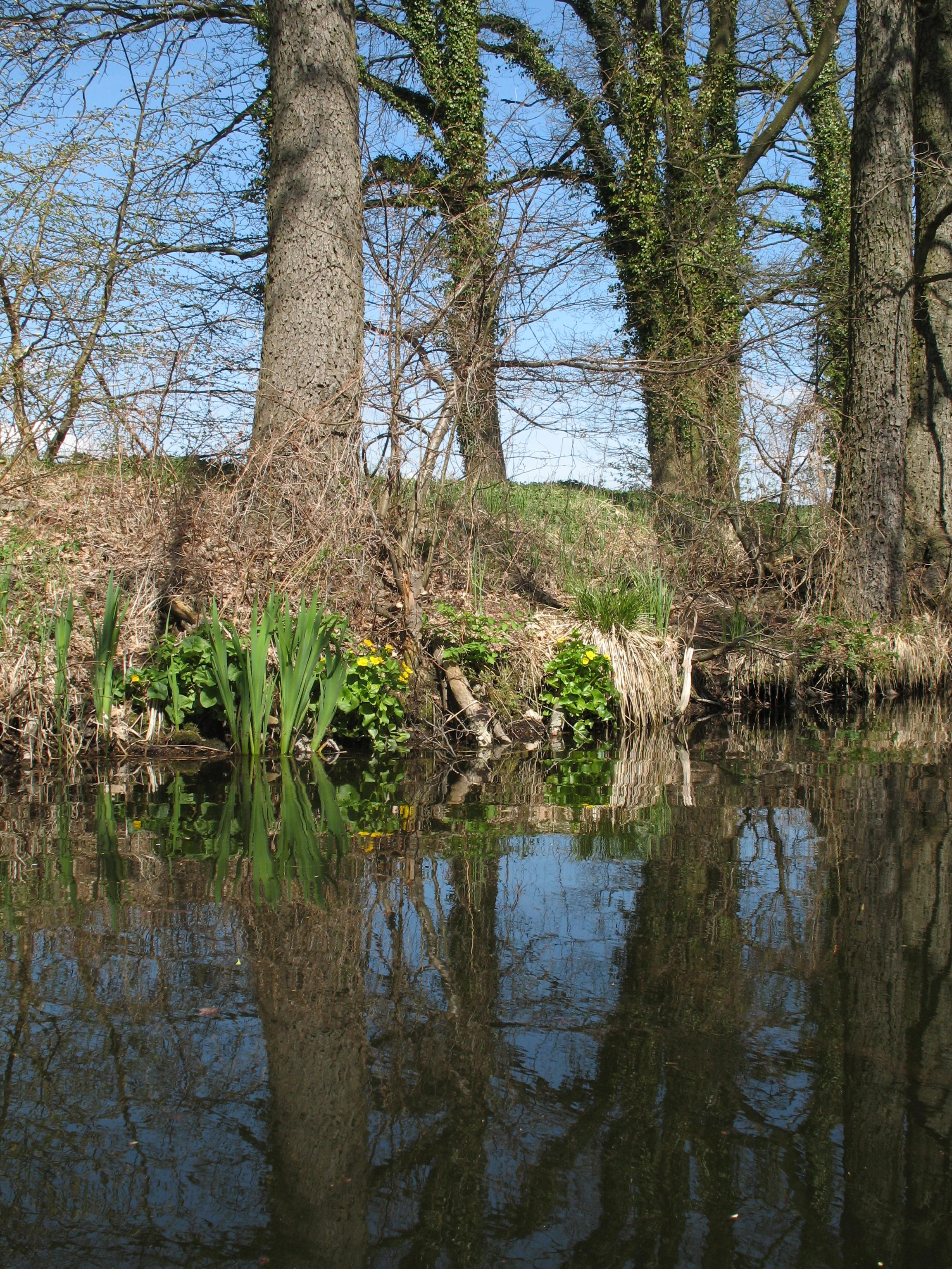 Canal in Liebenwalde in Brandenburg, Germany